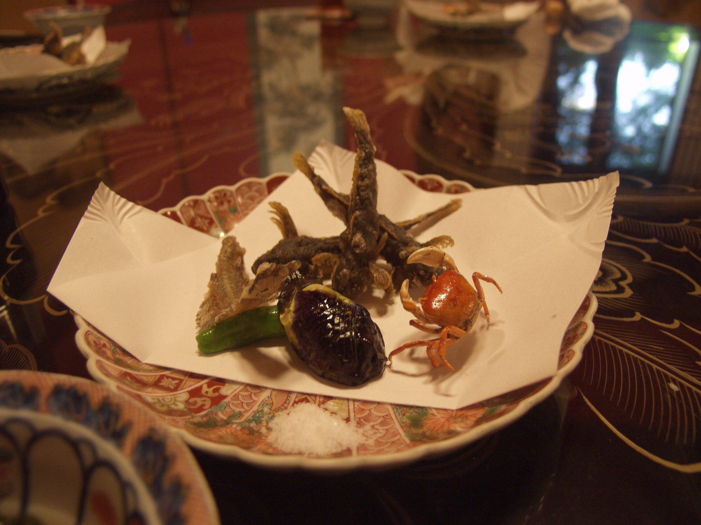 Tempra of gori-fish.Gori-fish is rare fish. It is a kind of river fish in japan. In Kanazawa where is old city, it is often eaten as tempura. In this picture,tempura of river-crab and some vegetables are included.